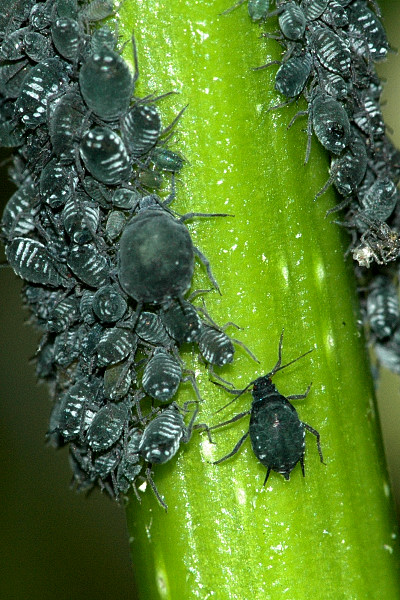 Picture taken in Commanster, Belgian High Ardennes . Species: Aphis sambuci